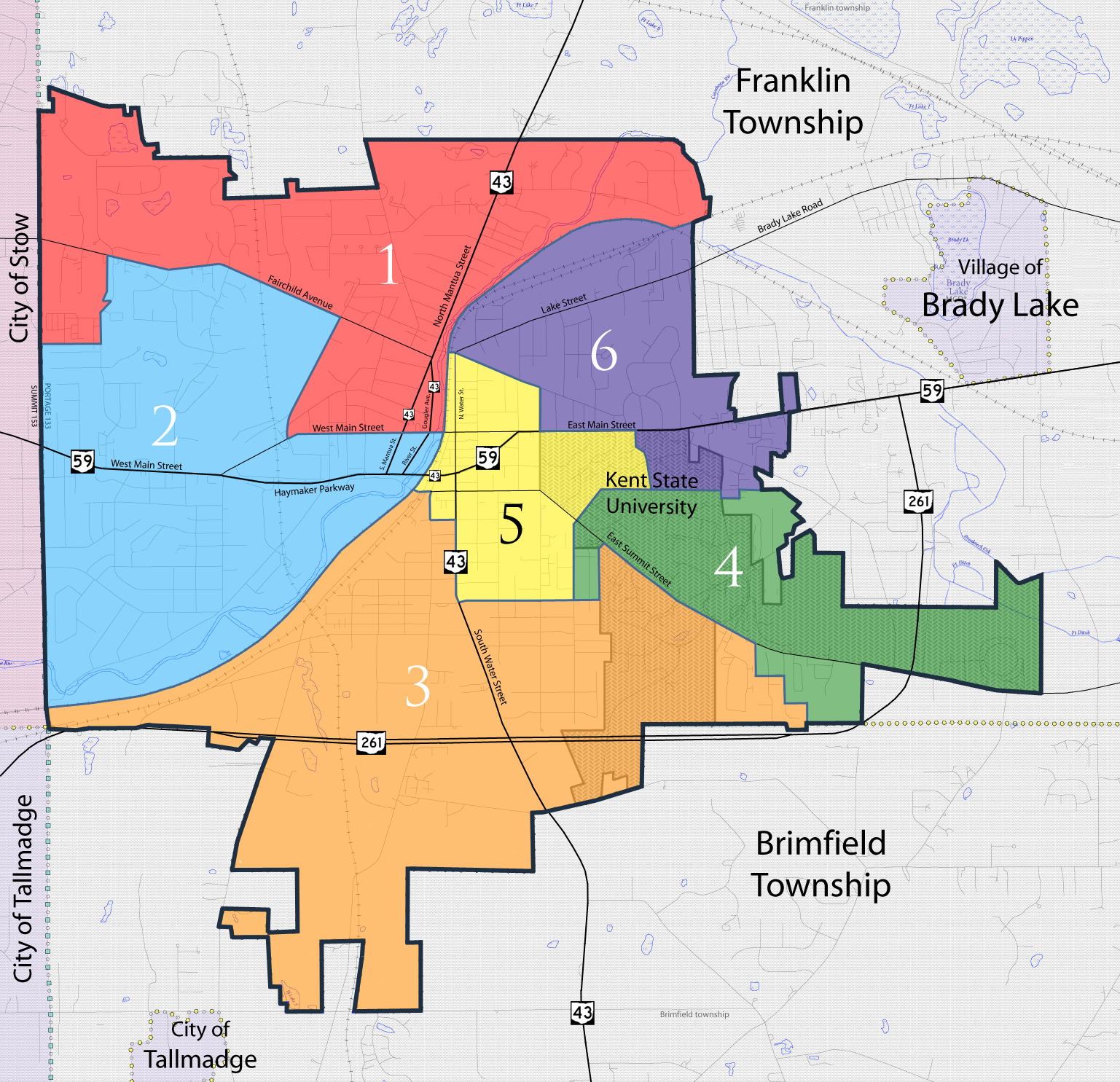 Map of Kent, Ohio showing political wards, selected streets, and boundaries of the Kent State University campus as of 2012 using the U.S. Census Bureau 2010 Boundary and Annexation Survey map as a base. Colors, street names, and other markings added by JonRidinger using data from the Portage County Auditor.